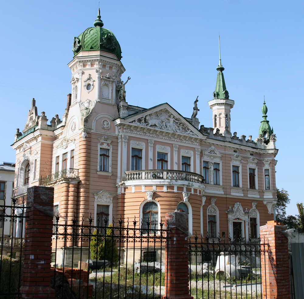 The original building of Lviv National Museum